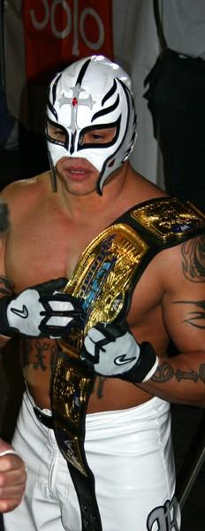 Cropped version of the original image (ReyAndEddie). Rey Mysterio with the WWE tag Team Championship after trying to steal them with Eddie Guerrero from then Champs (The Basham Brothers) during a WWE house show held in Kitchener, Ontario, Canada on January 22, 2005.rey and eddie